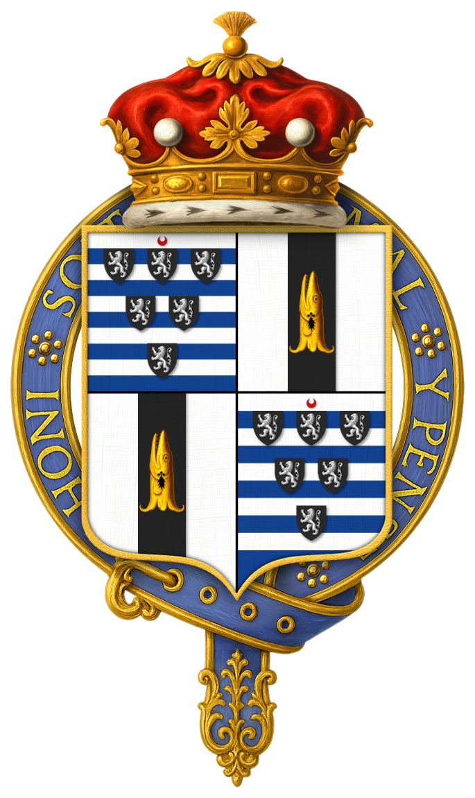 Coat of arms of Robert Gascoyne-Cecil, 5th Marquess of Salisbury, KG, PC, DL, FRS